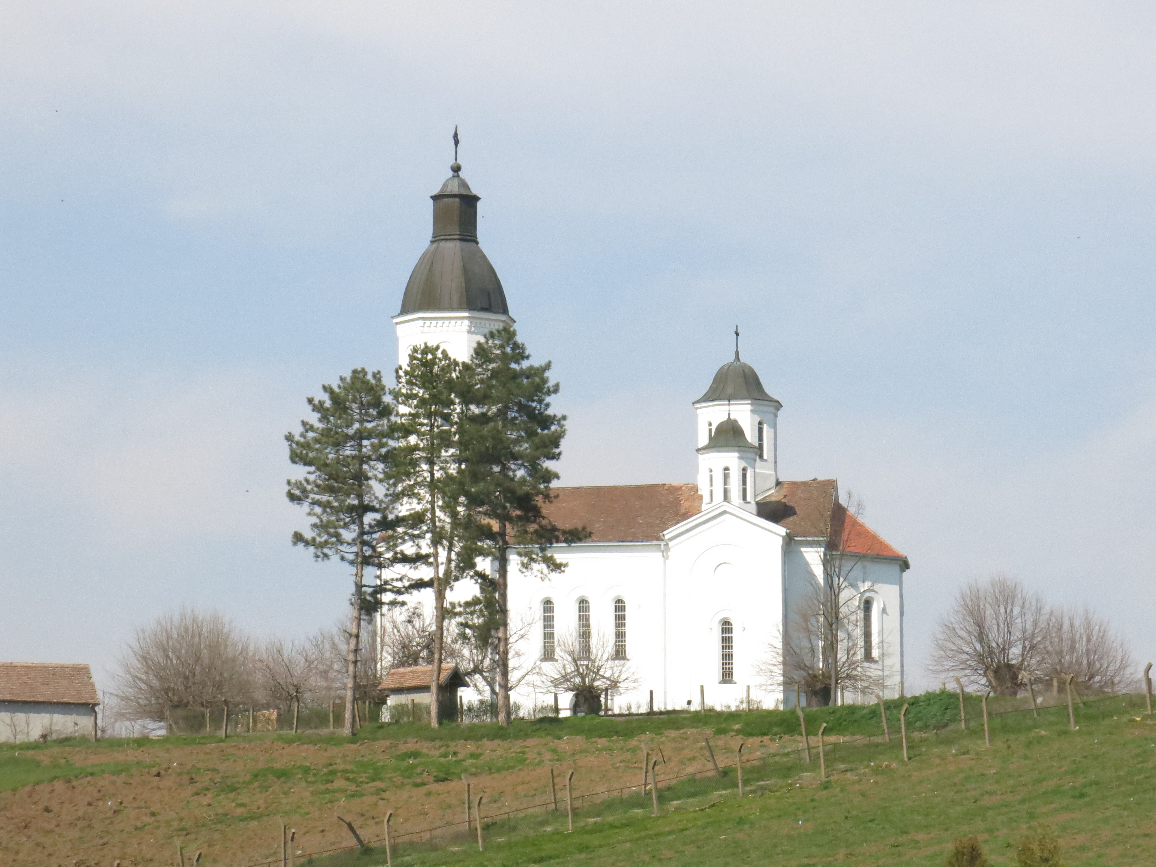 Orid, Church